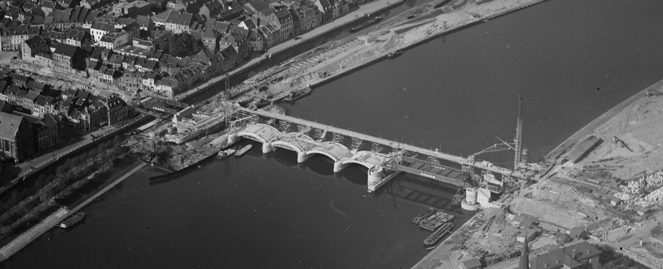 Aerial photograph of Maastricht, The Netherlands